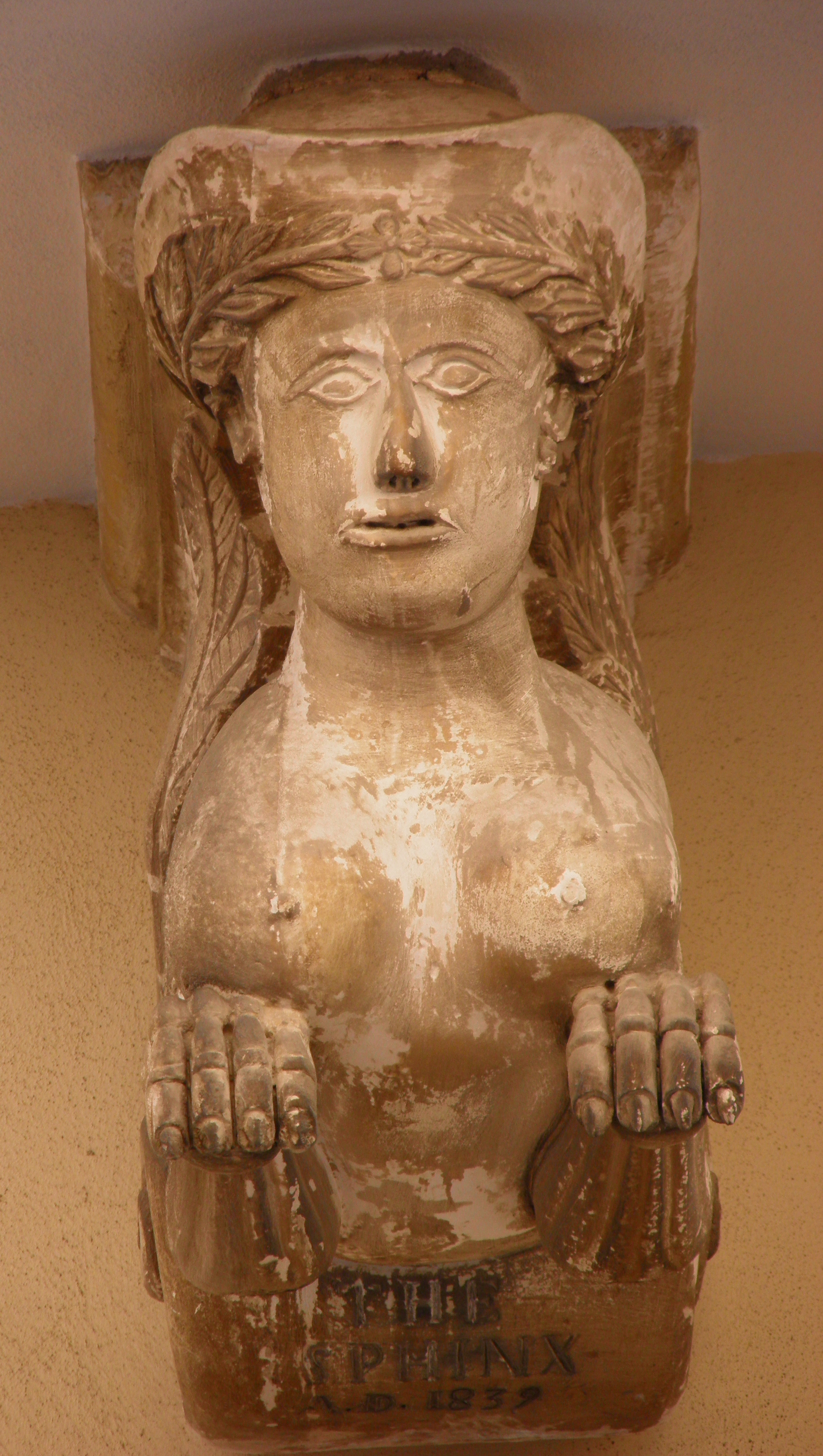 THE SPINX Pitkin